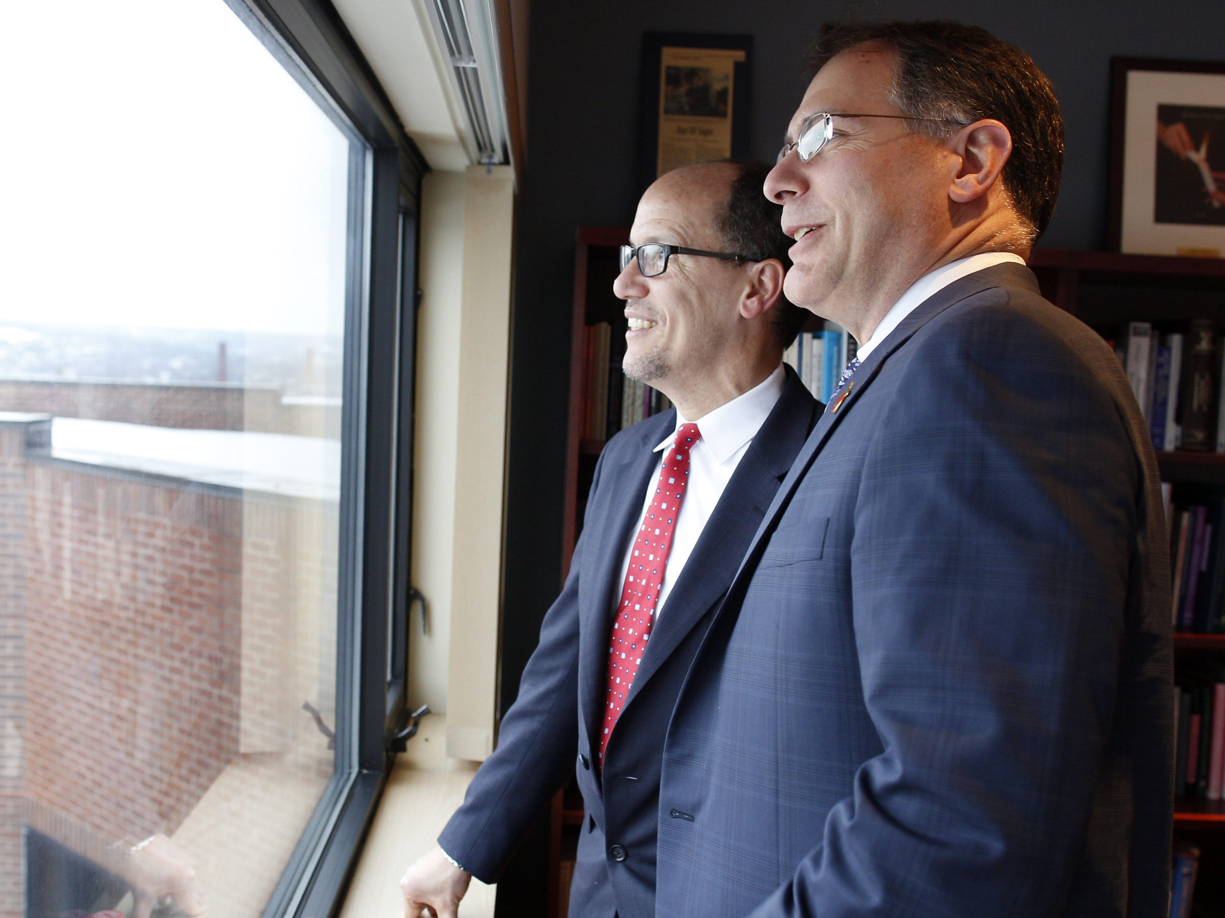 Secretary Perez and Syracuse University Vice Chancellor and Provost Eric Spina admire the University's campus from Mr. Spina's office on Wednesday, February 19, 2014.